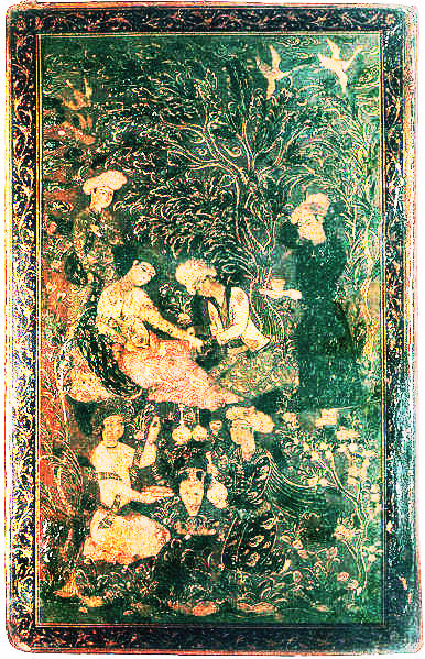 Image is taken from the cover of a medieval manuscript of Avicenna's Canon of Medicine, kept at the Wellcome Library in London. (photo-repaired version)